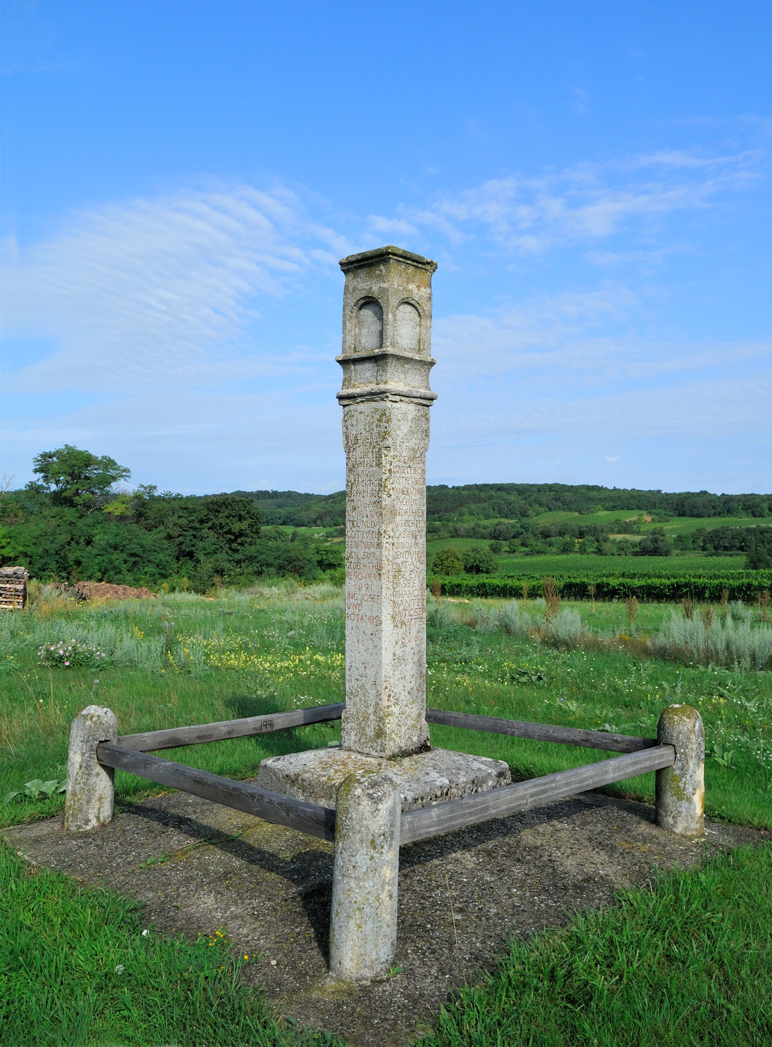 Wayside shrine near Jois, Burgenland, Austria